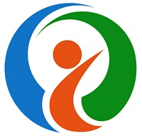 Itoshima Fukuoka chapter